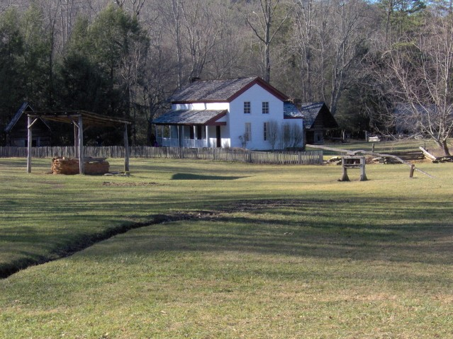 The Becky Cable House, constructed in 1879 by Leason Gregg and sold to John Cable shortly thereafter. Also visible are a molasses still (left) and a sorghum press (right).